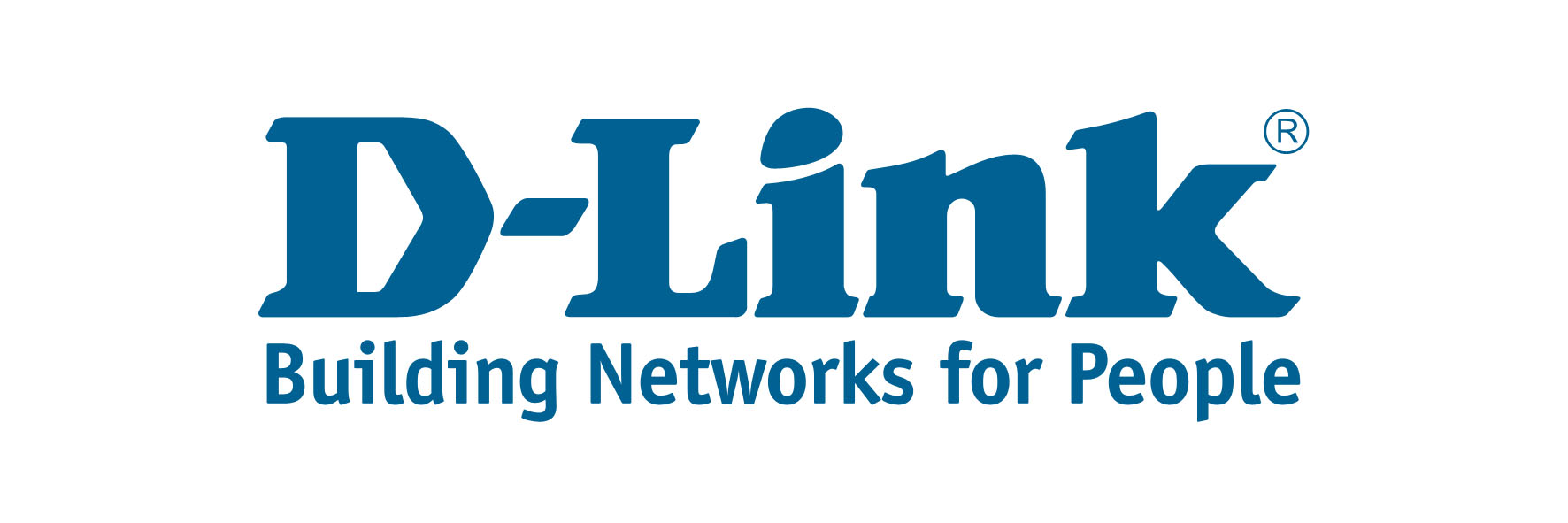 D-Link corporate logo